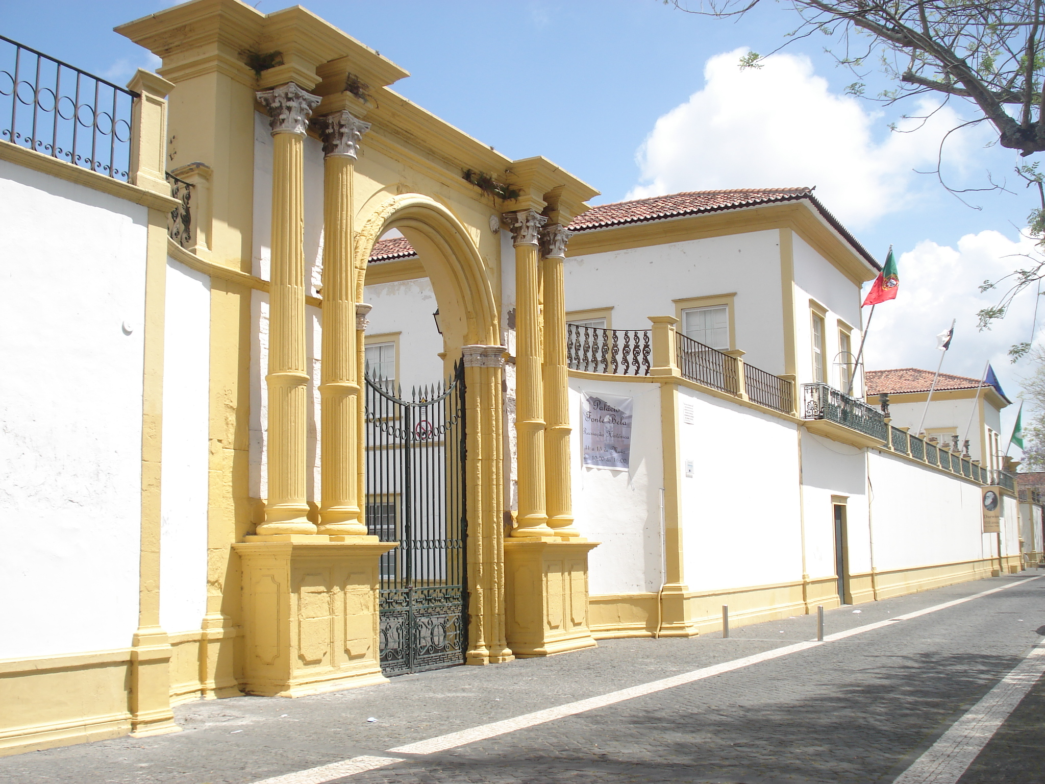 The entrance to Antero de Quental Secondary School, the old Palace of the Counts of Vila Franca, civil parish of São José, municipality of Ponta Delgada (Azores), Portugal